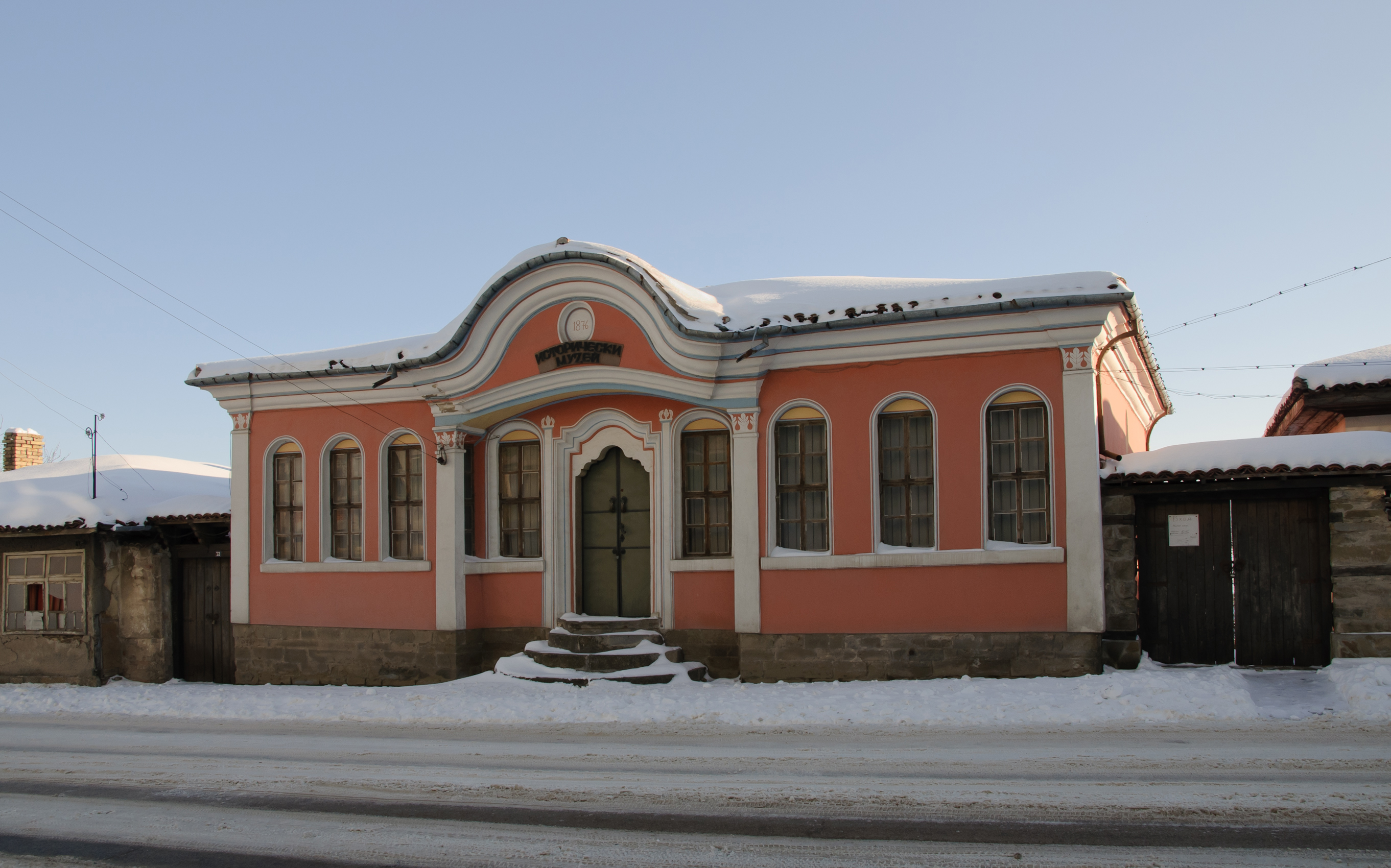 The History museum in the town of Omurtag, Bulgaria.